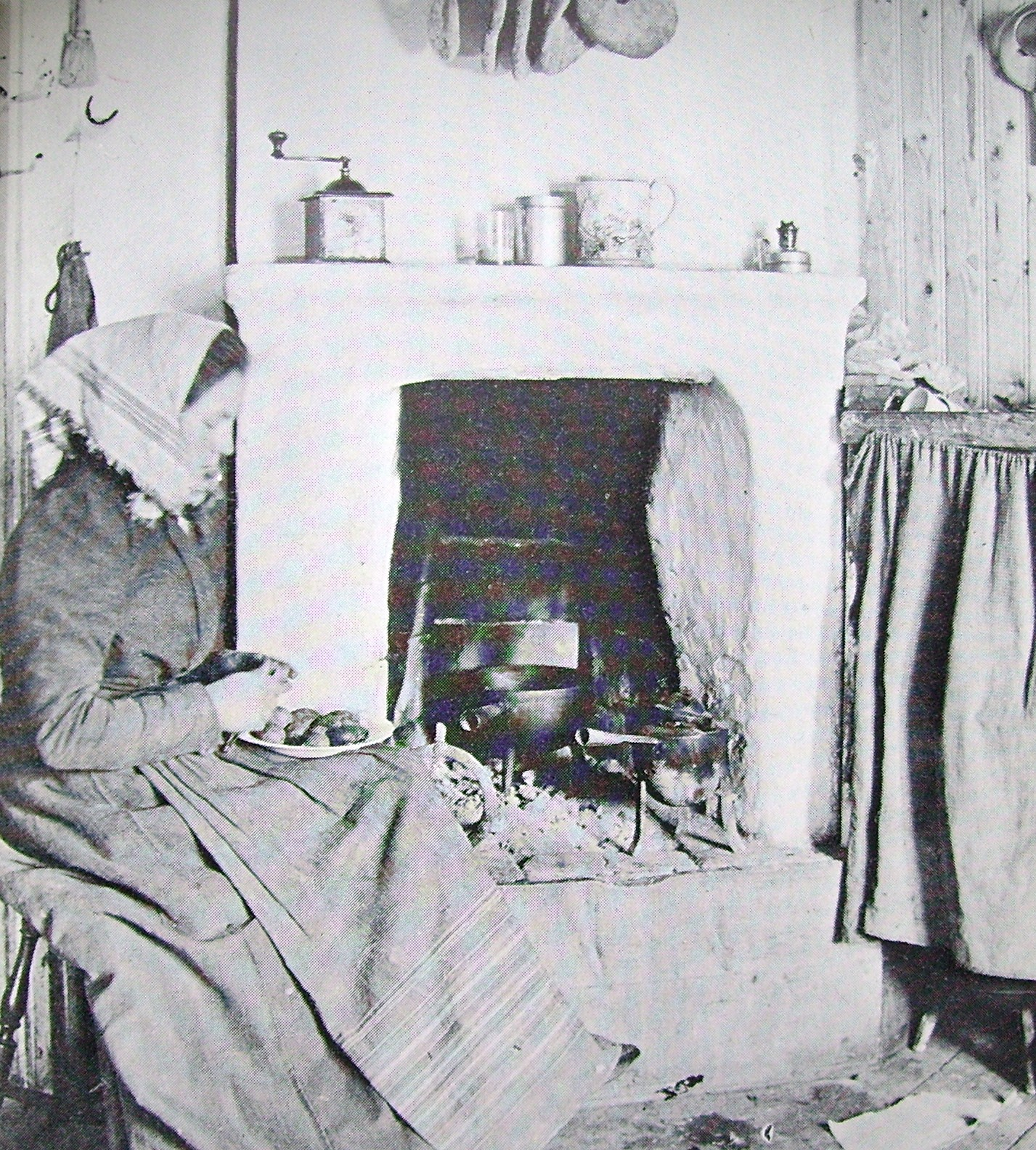 Picture of interior of a cabin in Sweden